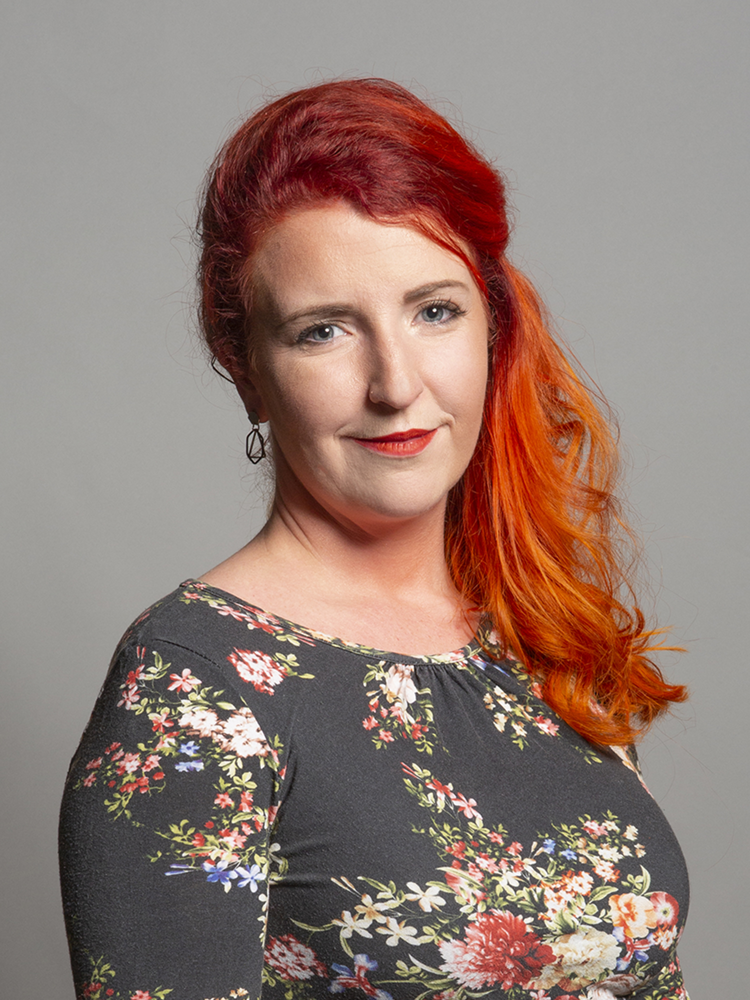 Official portrait of Louise Haigh MP 3×4 portrait of Louise Haigh